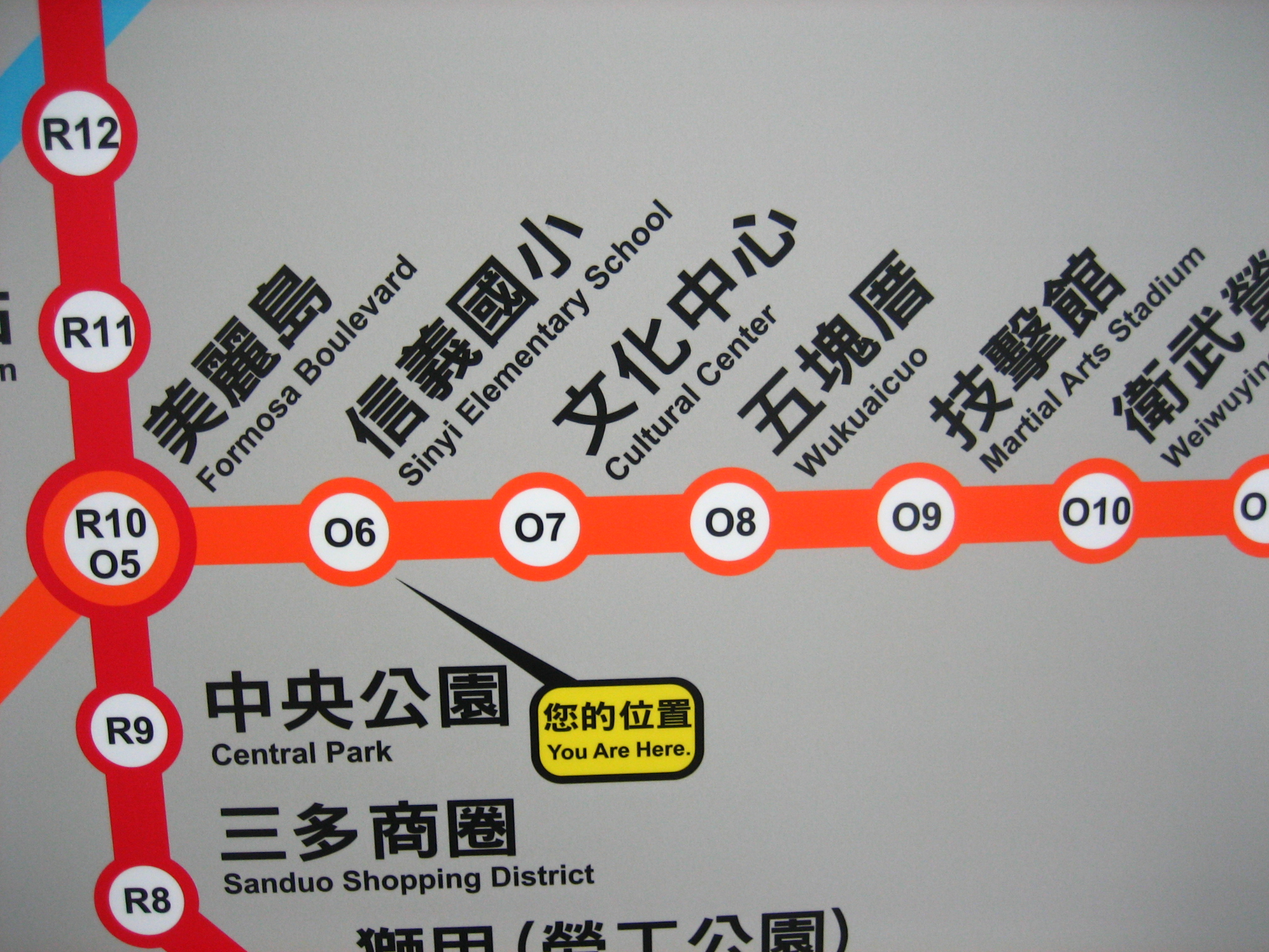 Sinyi Elementary School Station